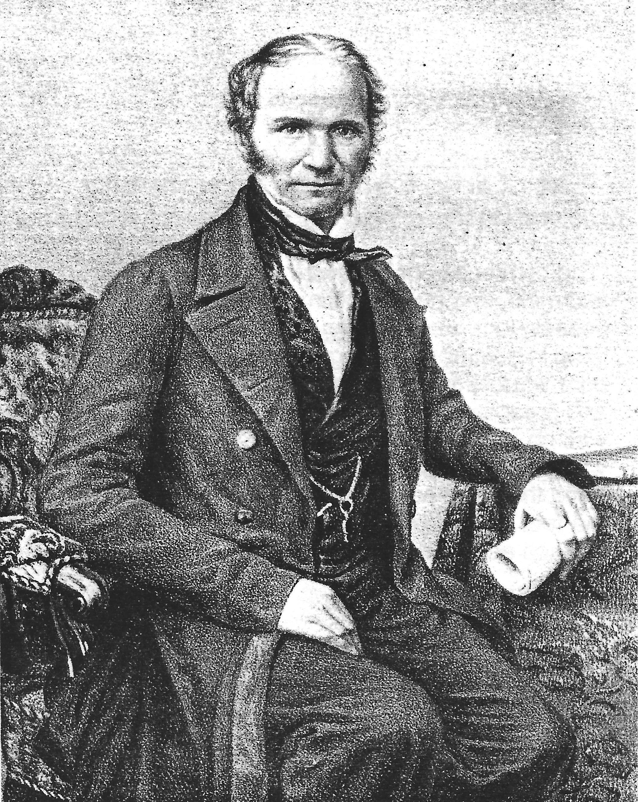 Ambros Oschwald (1801–1873), priest and immigrant